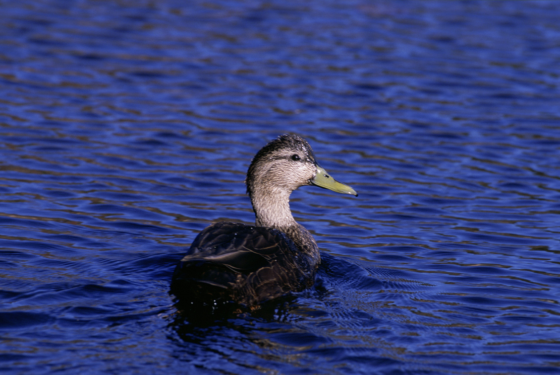 American Black Duck (Anas rubripes)